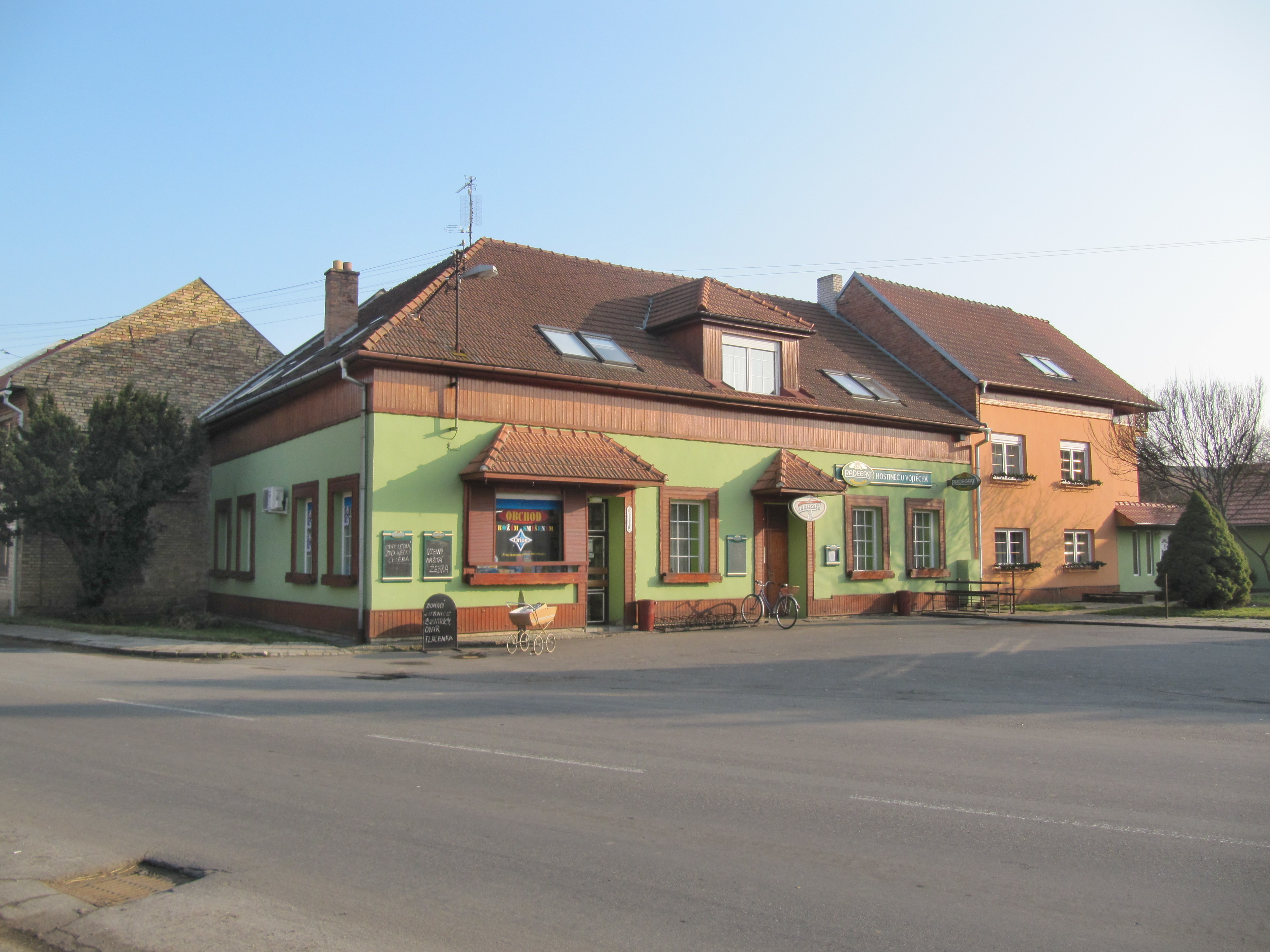 Lutopecny, Kroměříž District, Czech Republic.